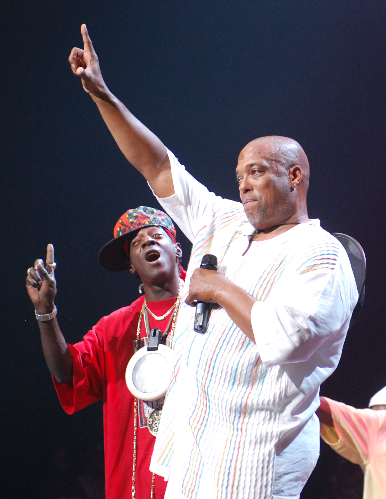 Cropped version of photograph of rappers Ecstasy and Flavor Flav performing at Fresh Fest 2009